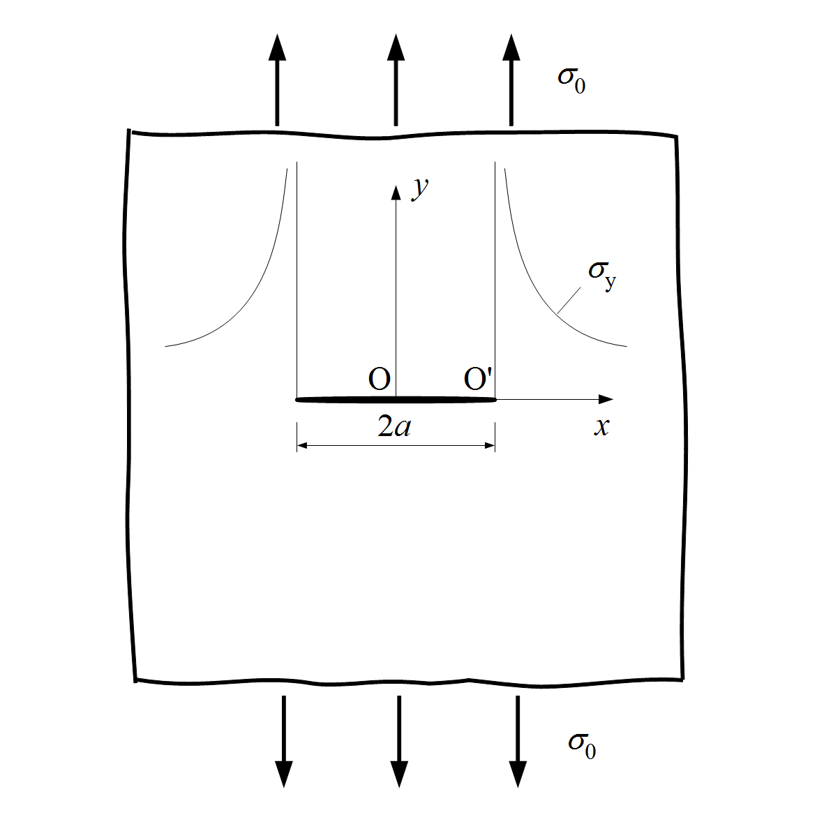 stress concentration by a through crack subjected to a uniform tensile stress in an inifinite plate